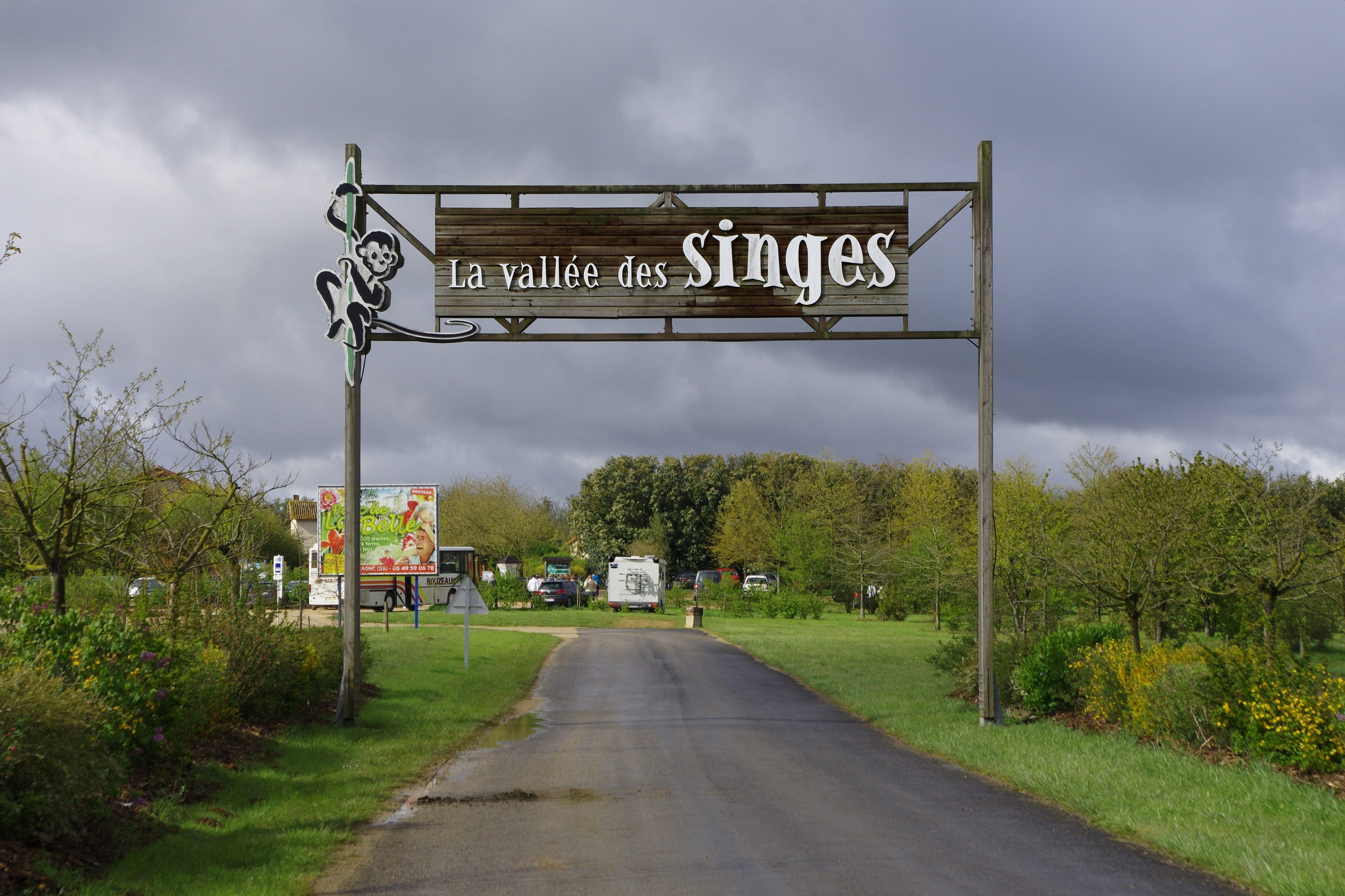 Entrance of the primate park "La Vallée des singes", Romagne, Vienne, France.